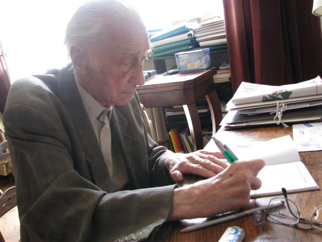 Zbigniew Czeczot-Gawrak (b. October 5, 1911, d. January 22, 2009), Polish scientist (prof., film theory), military officer and soldier of World War II